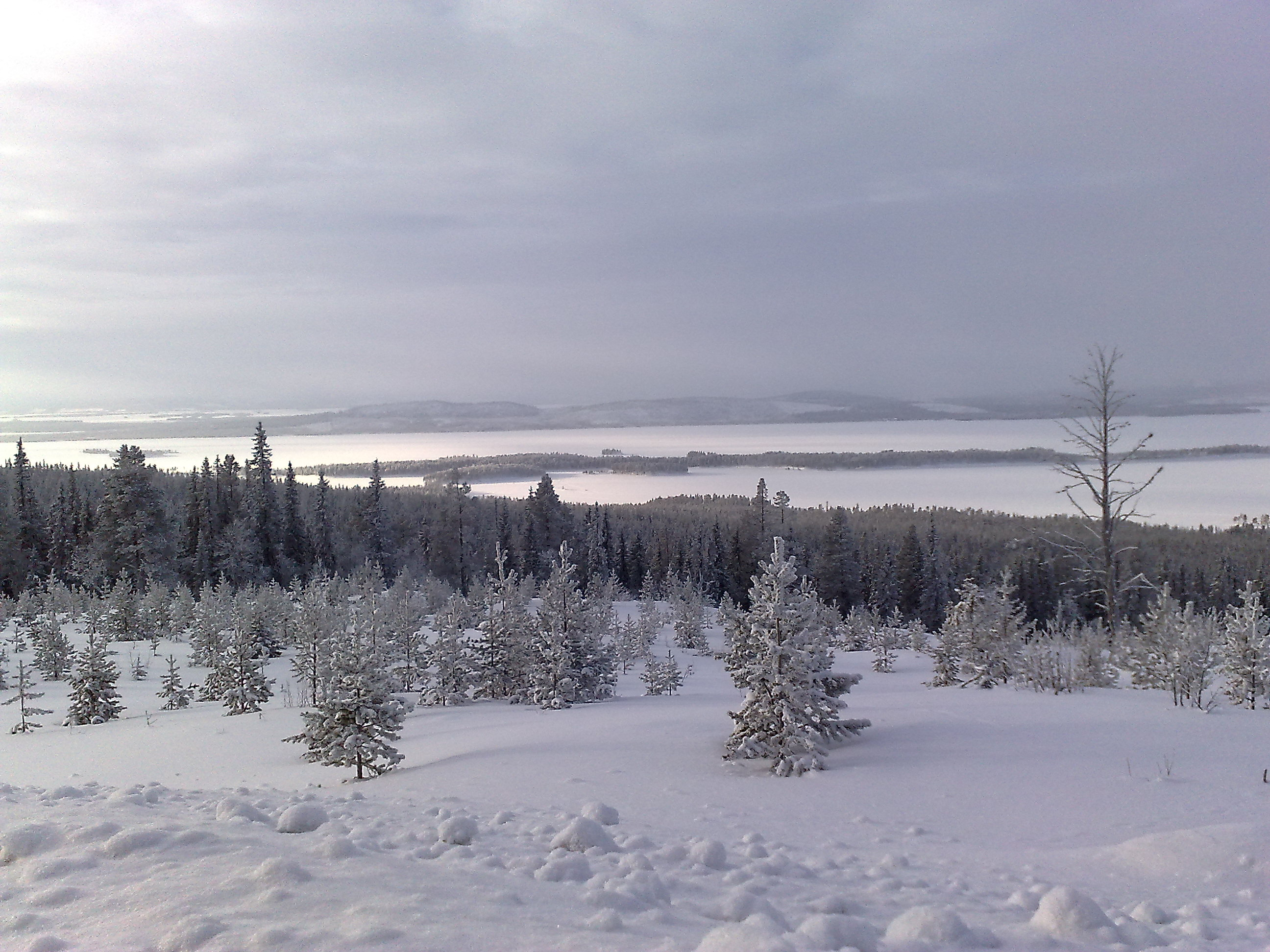 A view from the mountain Galtispouda in Arjeplog, Sweden.